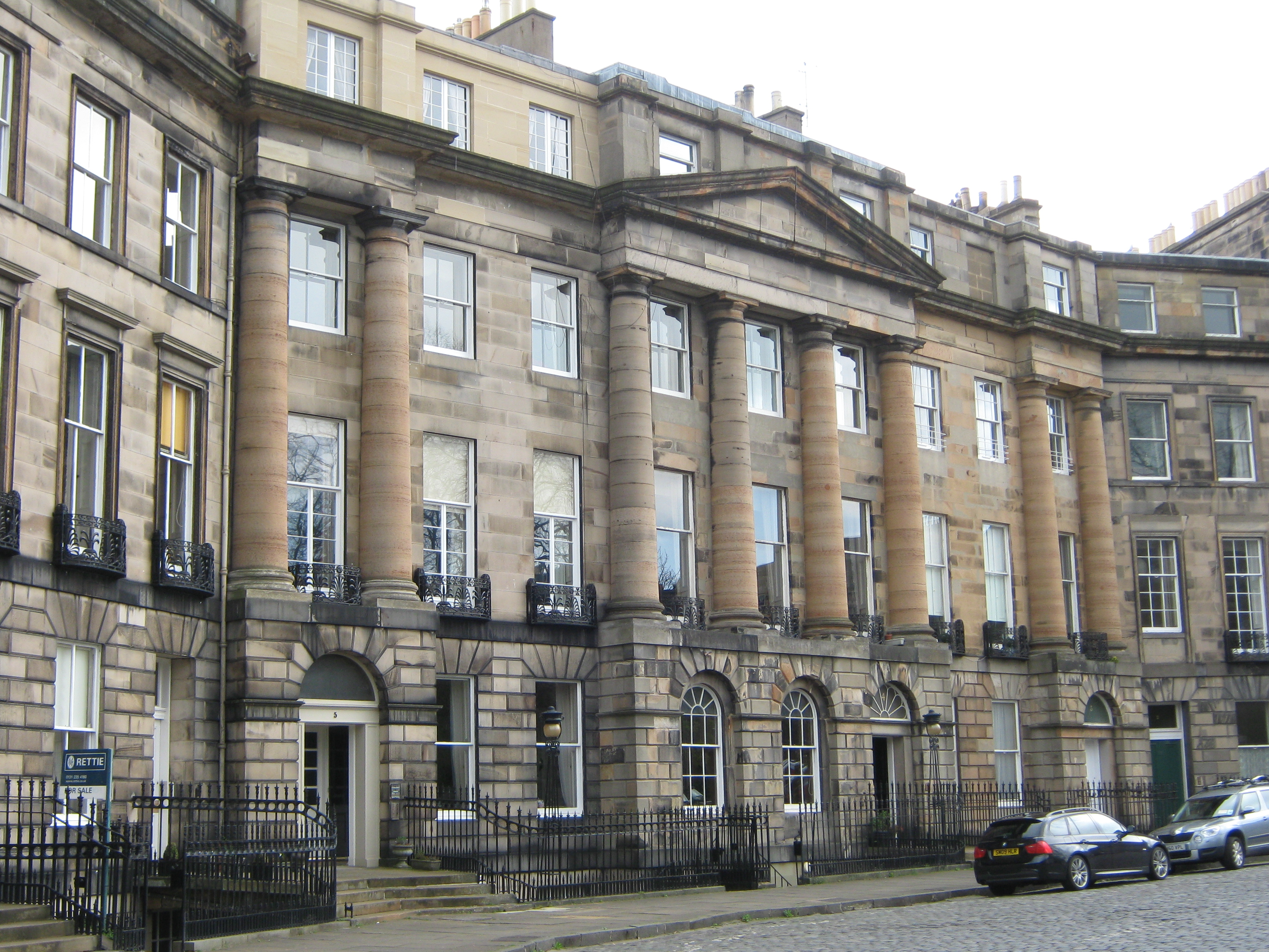 Moray Place, Edinburgh. Location (OSM permalink)